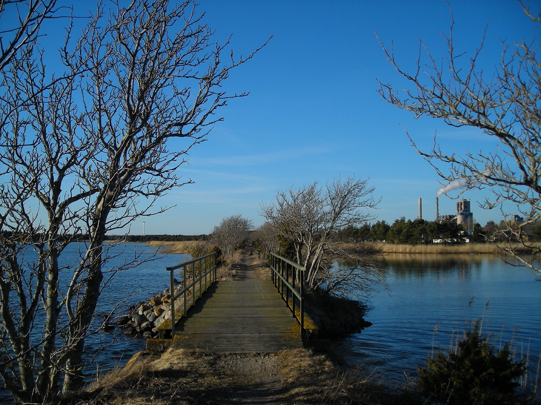 One of the more distinct remnants of the railroad to Slite is the embankment over Bogeviken